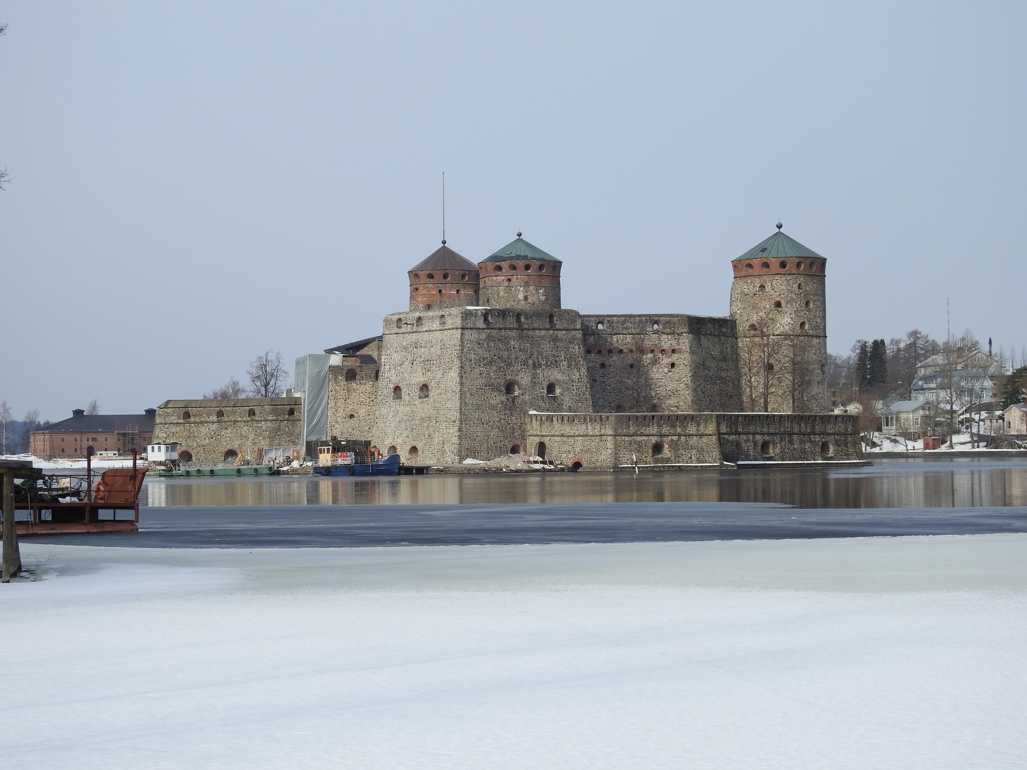 Olavinlinna castle in Savonlinna